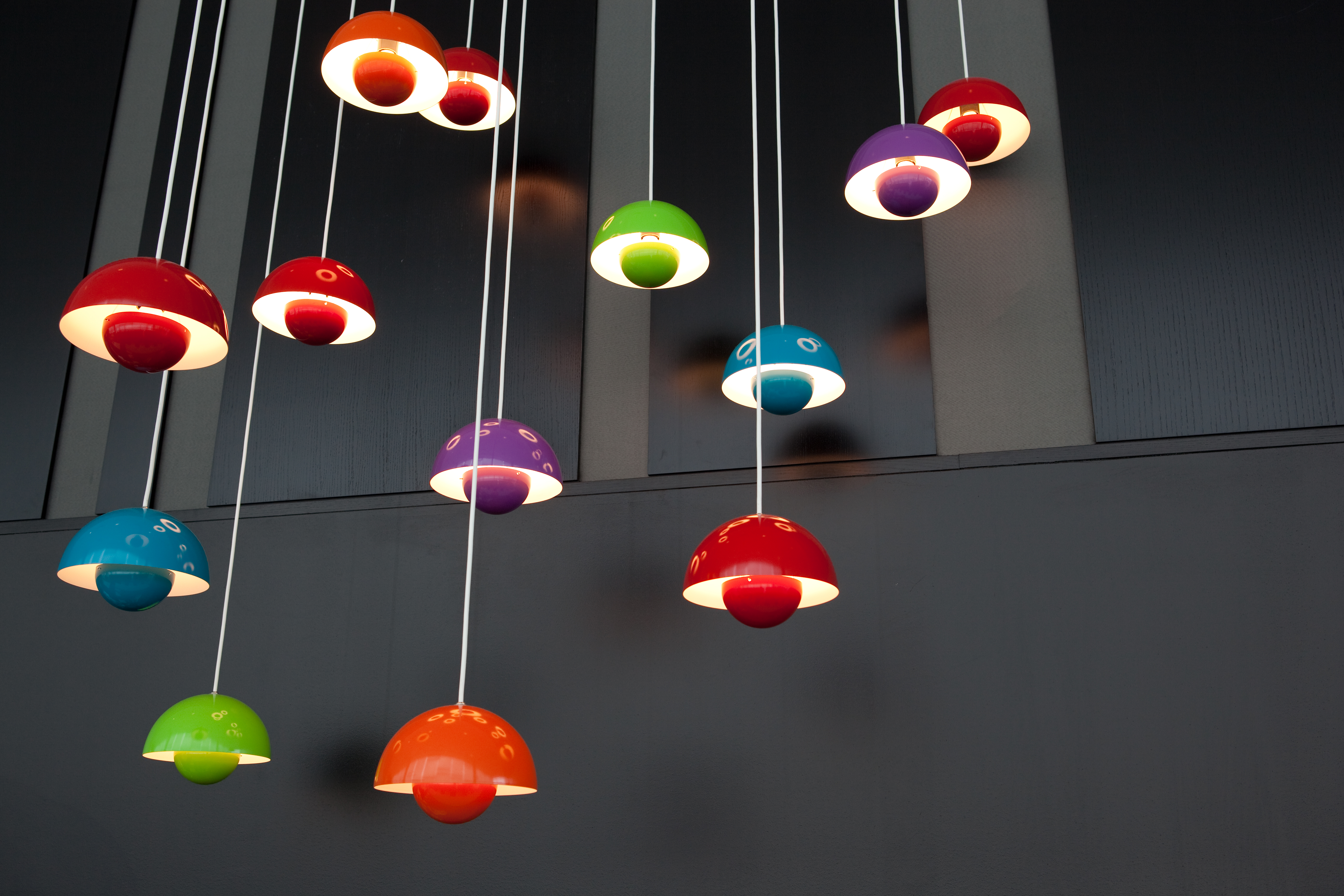 Verner Panton's Flowerpot lamps